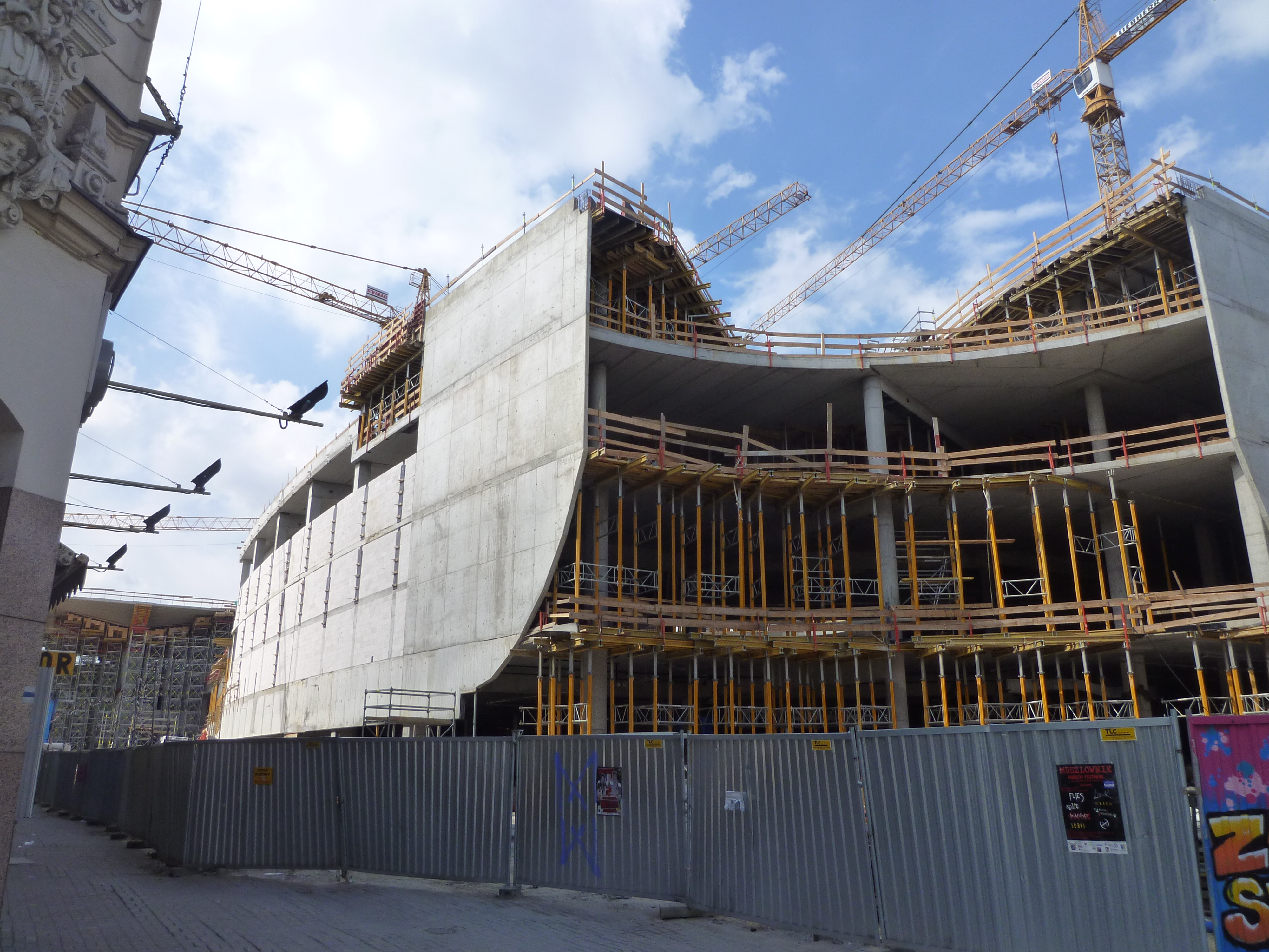 Katowice Central station - new construction, summer 2012.